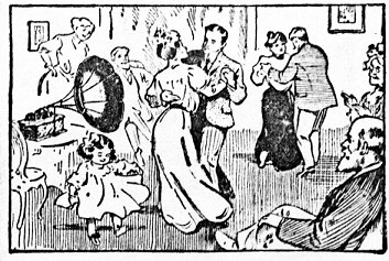 Edison Phonograph ad, Sept 1907 Home Magazine